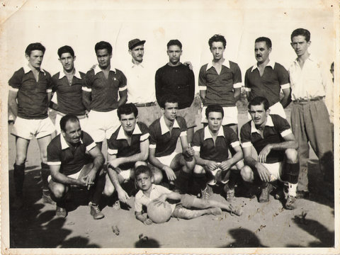 Planaltina Football Team